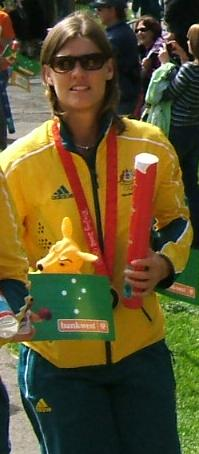 Natalie Ward at the 2008 Olympic welcome home parade in Adelaide